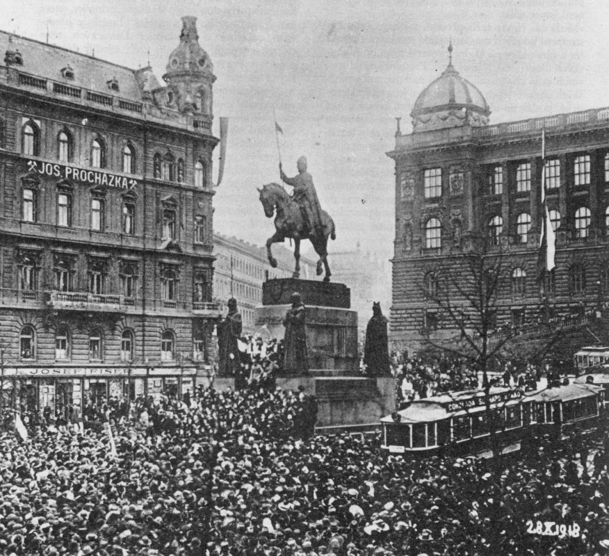 Rally the people of Prague on Wenceslas Square on the 28th October 1918